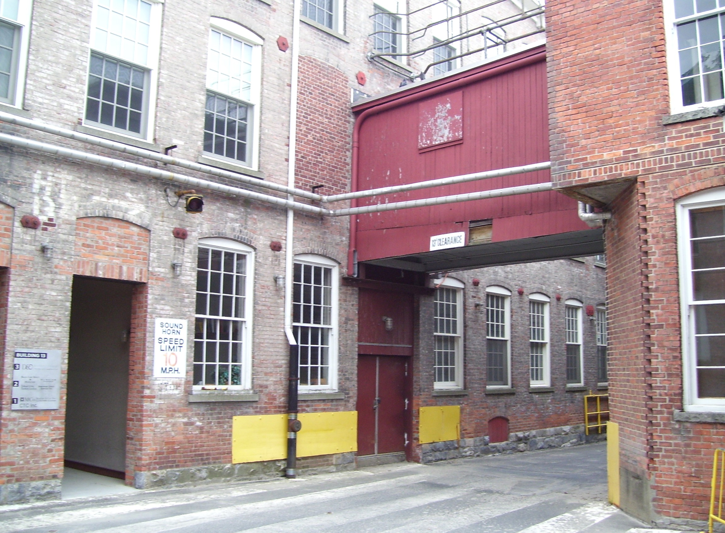 Buldings of the Arnold Print Works (now MASS MoCA), as seen from the south parking lot.